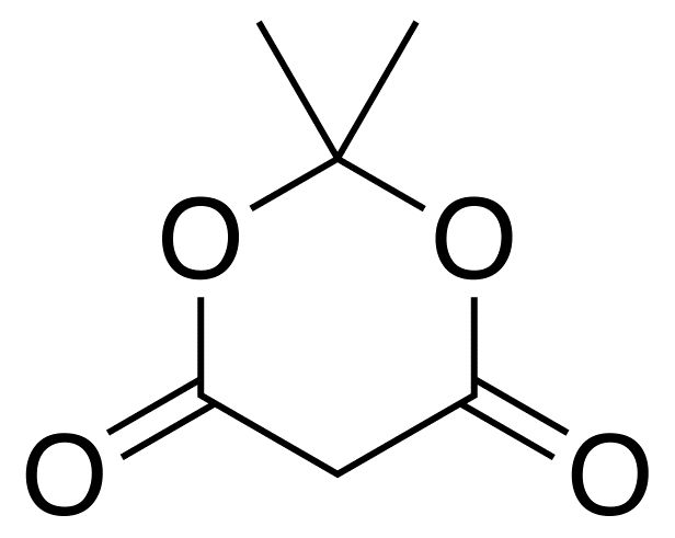 Chemical structure of Meldrum's acid